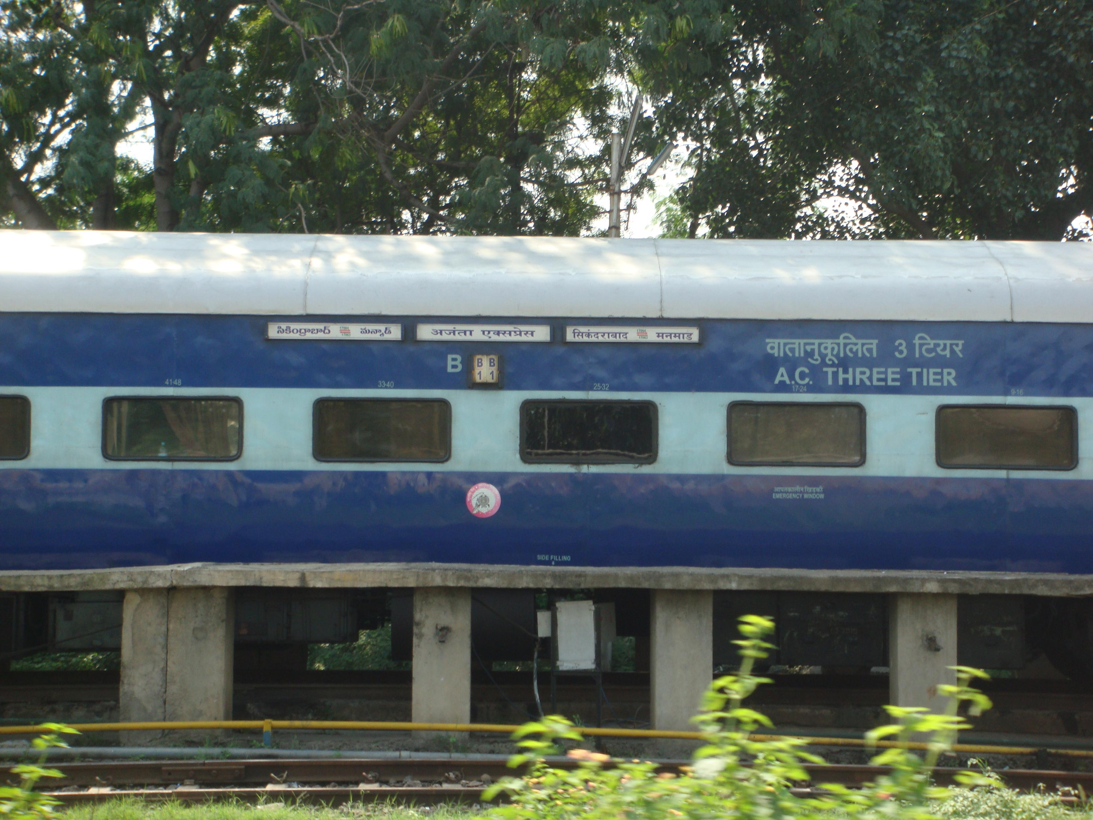 17604 Ajantha Express (2)